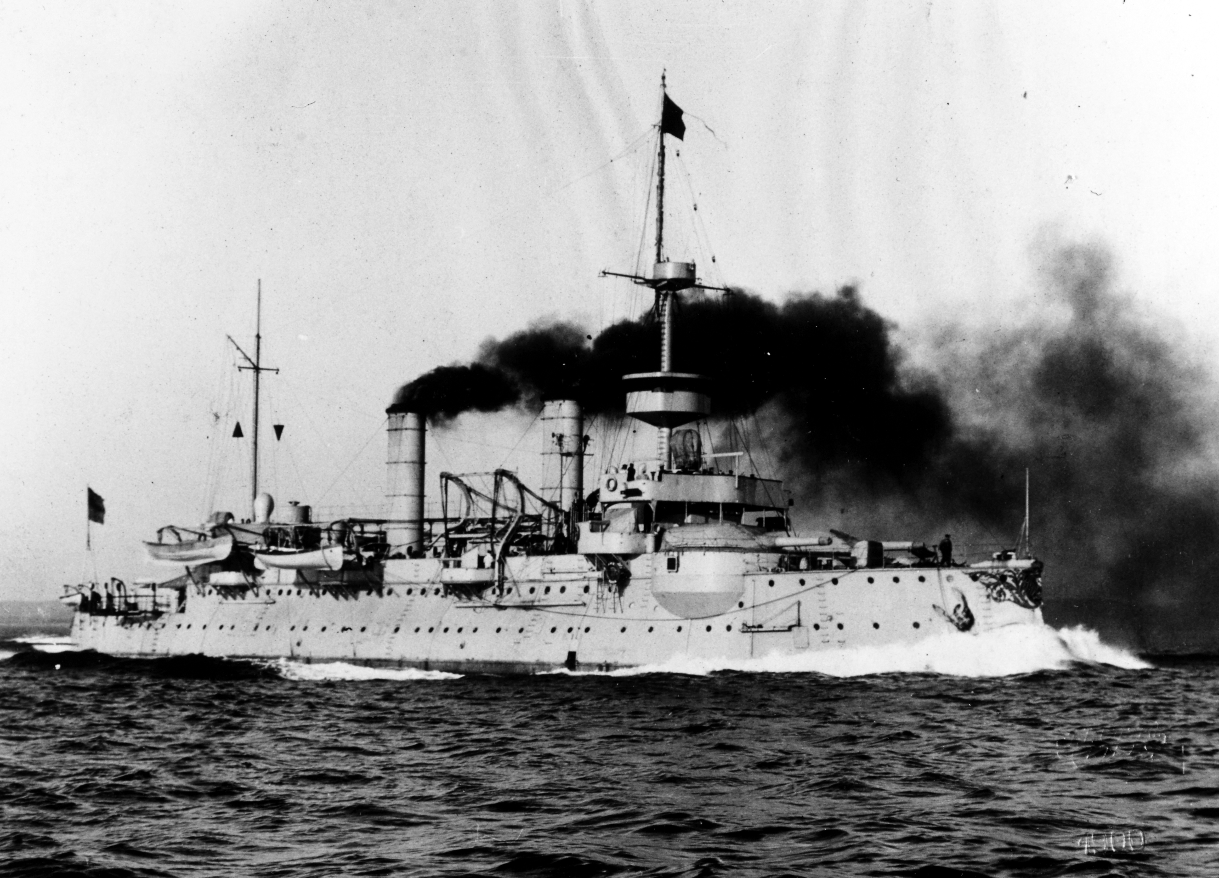 Title: HAGEN (German coast defense battleship, 1893-1919) Caption: Photo by Arthur Renard, Kiel, 1900, taken after reconstruction of 1898-1900.